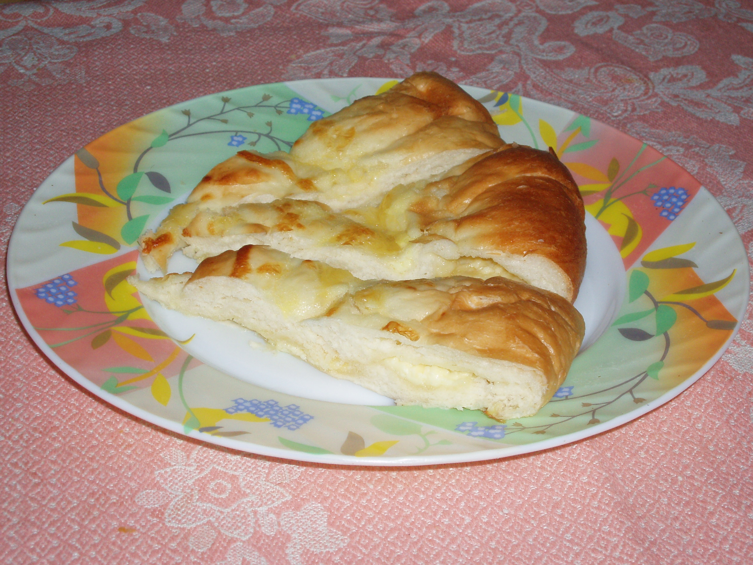 Pieces of khachapuri on a plate